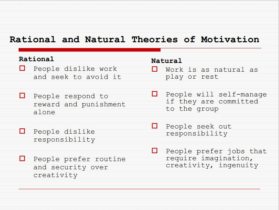 comparison between rational and natural theories of motivation